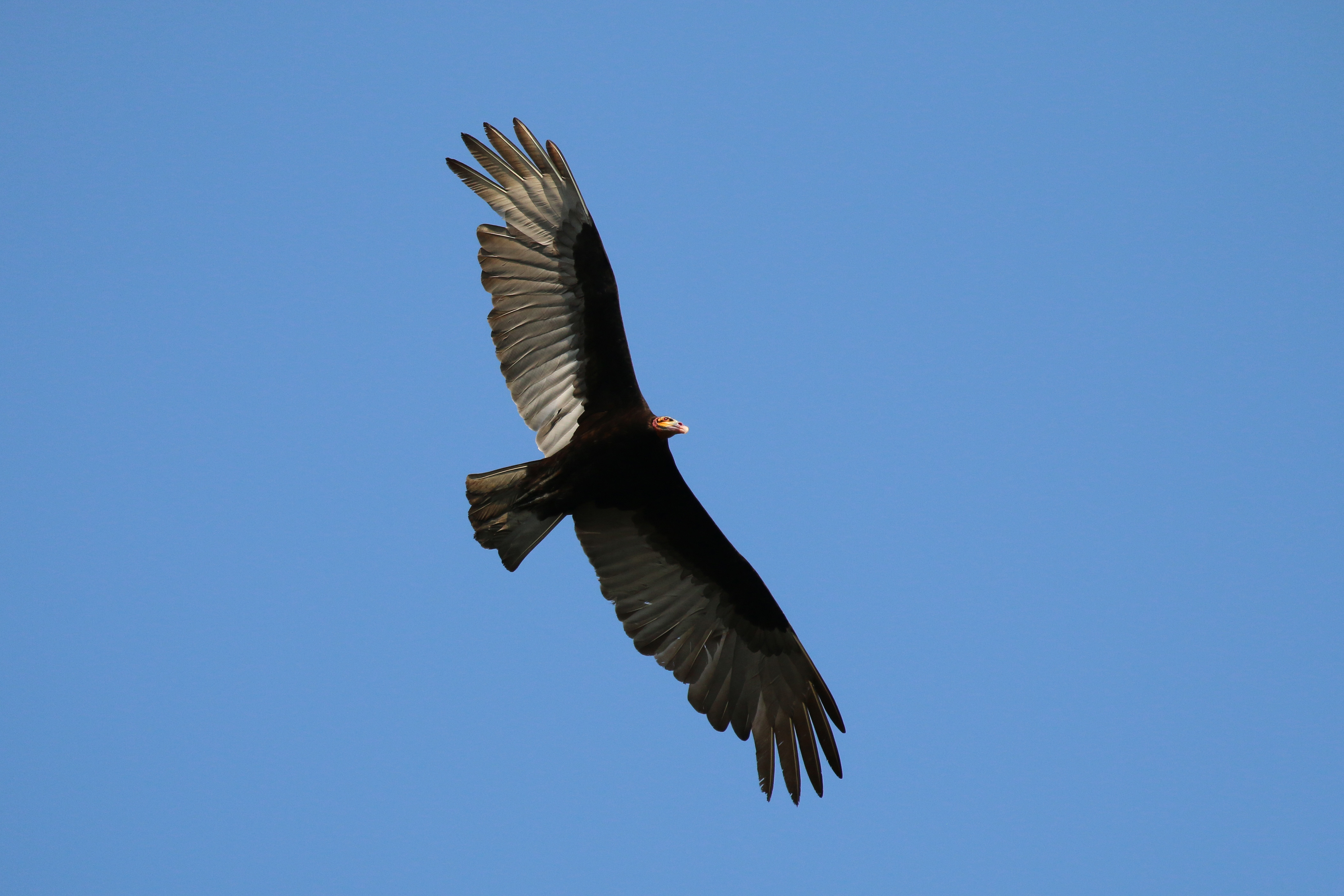 Lesser yellow-headed vulture (Cathartes burrovianus) in flight, the Pantanal, Brazil